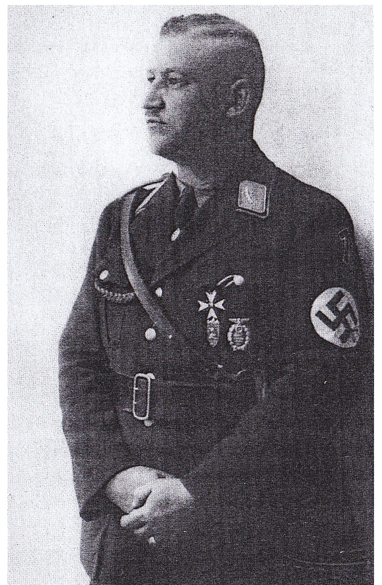 Julius Uhl, chief of the personal guard of SA-chief Ernst Röhm in the years 1931 to 1934.